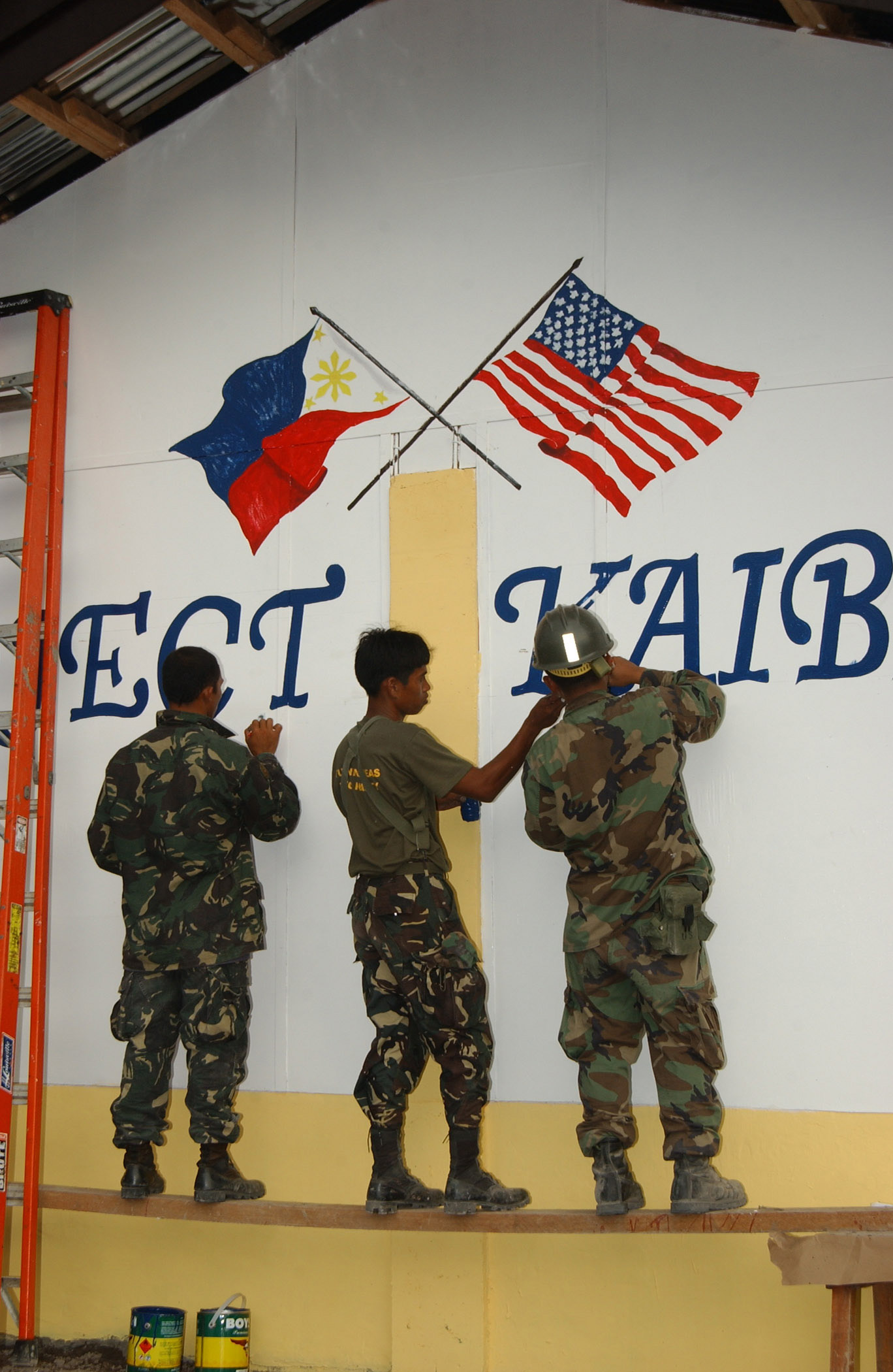 Filipino soldiers and U.S. Navy Builder 3rd Class Rouel Agustin, right, from Naval Construction Battalion Three, paint friendship flags on the side of the Chongco primary school in General Santos City, Philippines, Feb. 17, 2007, during a community service project. The new building was constructed as part of Project Friendship, a humanitarian assistance and community service project with the Armed Forces of the Philippines. ID: 070217-N-4198C-001